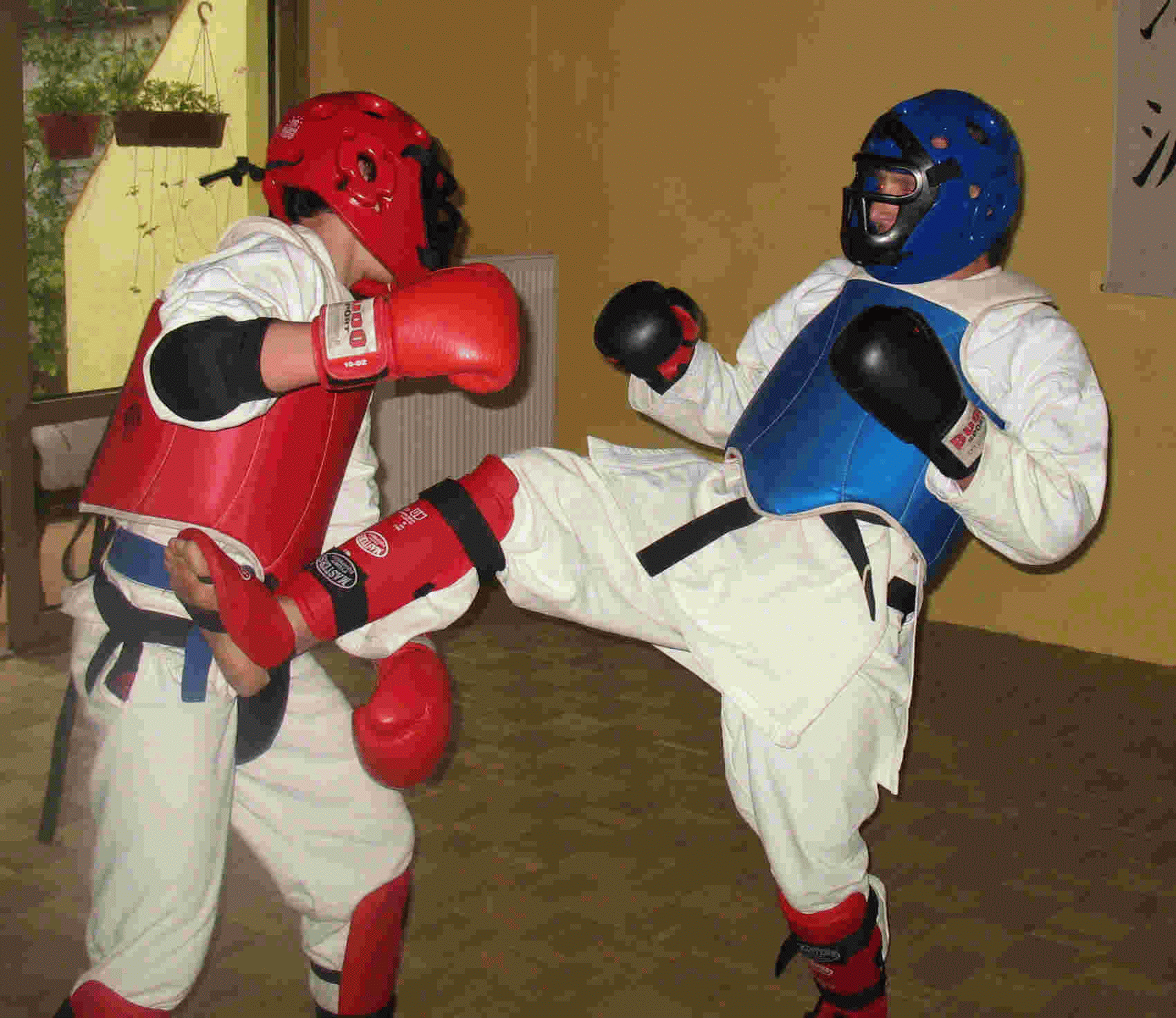 Photo copyrights released by the owner, Ryszard Murat, permissions sent to